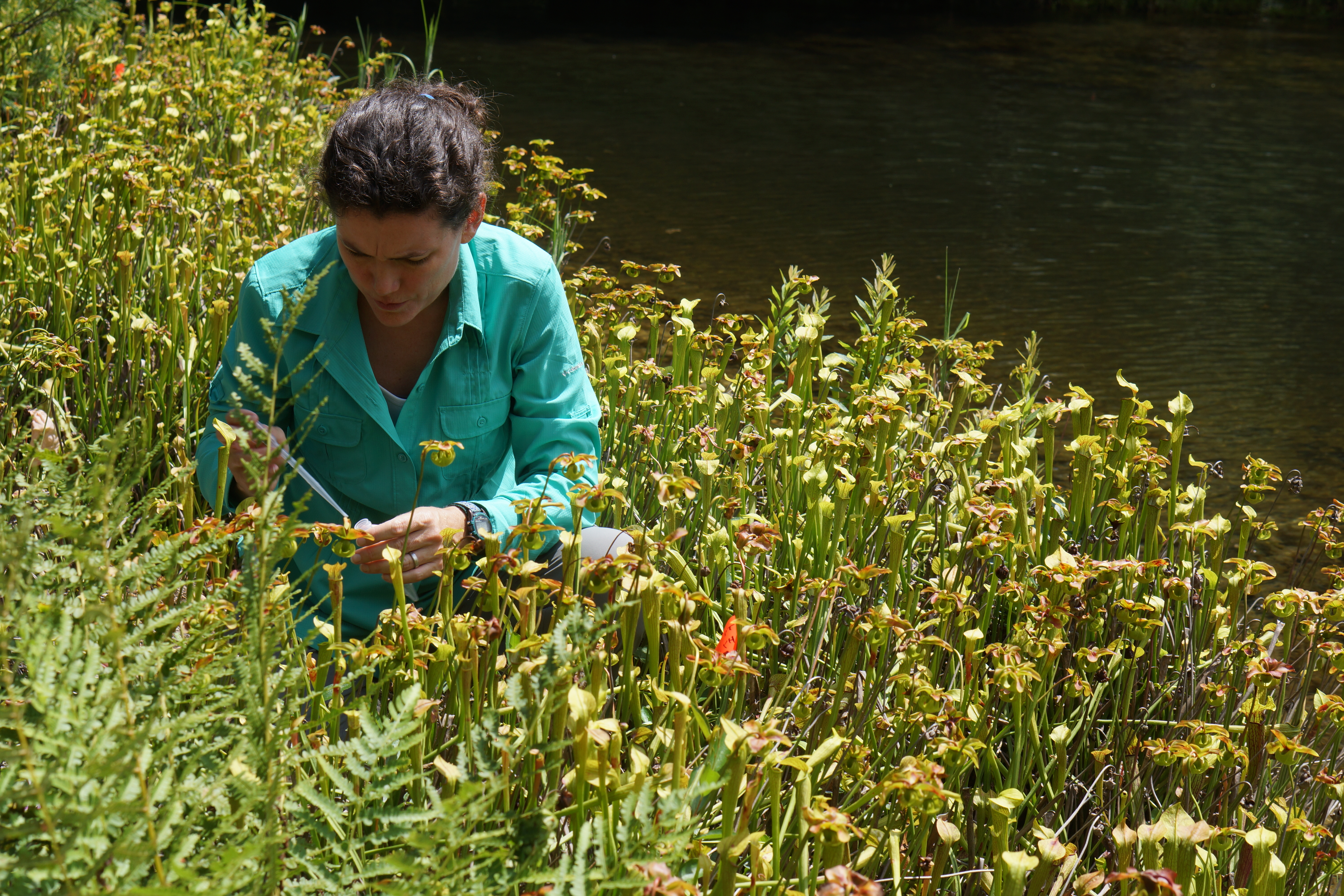 Researchers at the University of North Carolina at Asheville are working with the U.S. Fish & Wildlife Service to learn more about rare pitcher plants. Pitcher plants have a modified leaf in the shape of a pitcher. The pitcher is lined with tiny, downward-facing hairs. In many pitcher plants, an insect is attracted to the pitcher's scent, begins climbing down, and the hairs prevent it from reversing course, leaving its only option to go deeper, until it comes to the pool of enzymes, is digested, and feeds the plant. However, in other pitcher plants, the plants get others to do much of this work. In the purple pitcher plant, which is found in western North Carolina, the pool of water at the base of the pitcher is home to a community of life, with 165 species found living within its pitchers. In these cases, it's this community of life that does the digesting, and the plant absorbs nutrients released as these other species feed and grow. The purple pitcher plant hybridizes with the endangered mountain sweet pitcher plant, which uses enzymes to digest insects. Two different pitcher plants. Two different feeding strategies. What happens in their offspring? That's one of the questions the researchers hope to answer. By periodically collecting and examining water from the pitchers, they'll gain an understanding of how both communities of life and enzyme solutions vary among the purple, mountain sweet, and hybrid pitcher plants.